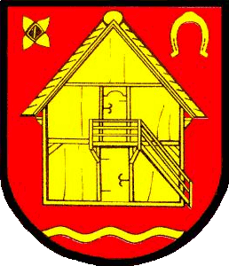 Coat of arms of the municipality Westergellersen in Niedersachsen, Germany.